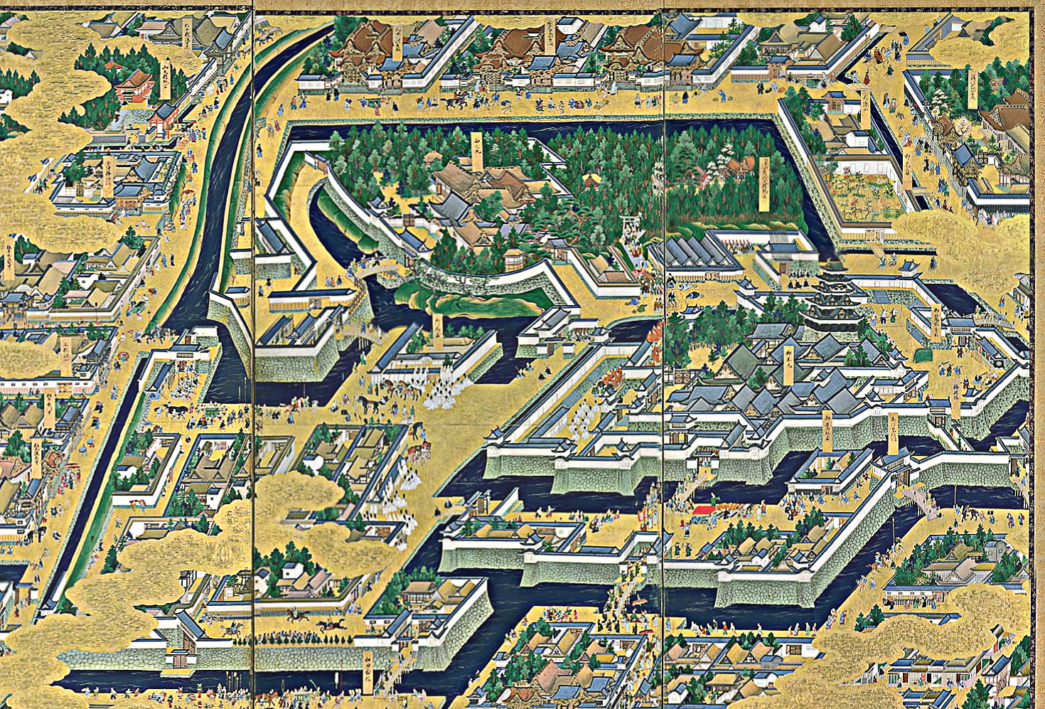 "View of Edo" (Edo zu) pair of six-panel folding screens (17th century). Upper middle of first panel, left screen. Central enciente of Edo Castle, Castle Tower, Bairinzaka, Hirakawaguchi Gate.